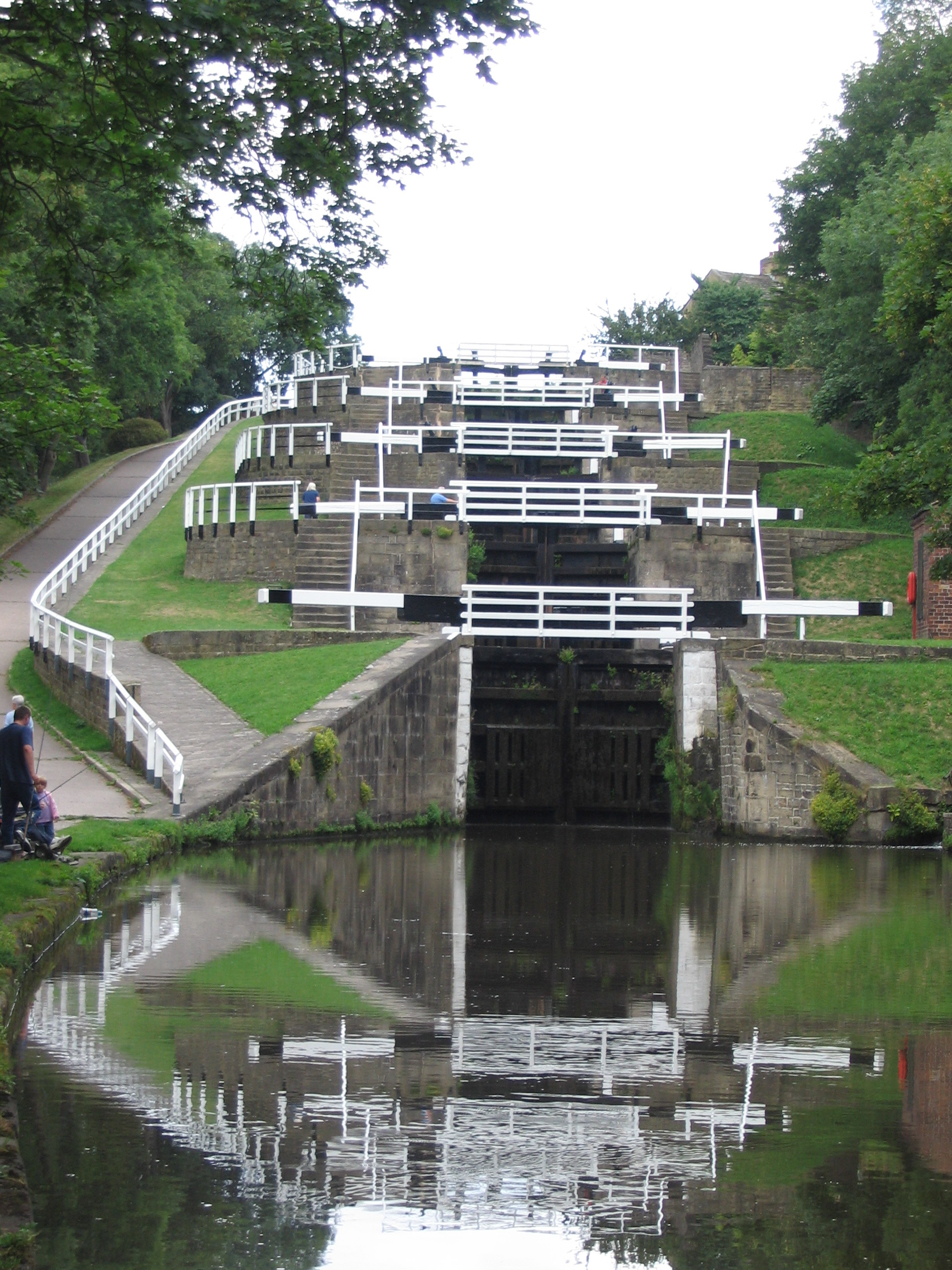 Five Rise Locks te Bingley op het Leeds & Liverpool Canal - eigen foto - augustus 2006